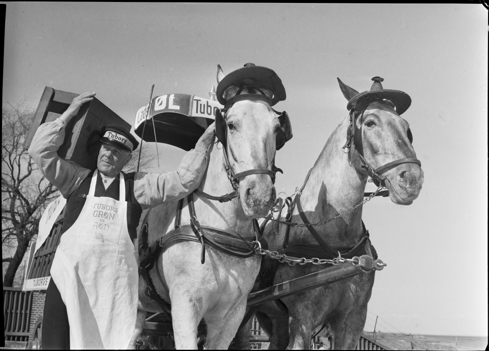 Delivering beer KB id: turck_58641 Photo: Sven Türck (1897-1954) Department of Maps, Prints and Photographs, The Royal Library, Denmark.